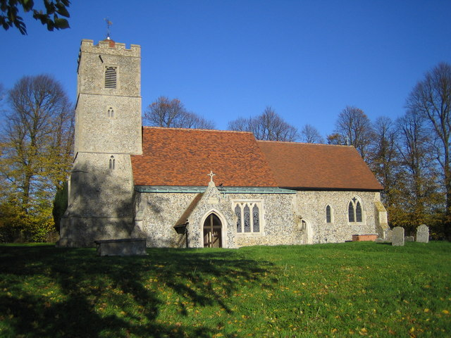 All Saints' parish church, Rickling Essex, seen from the south